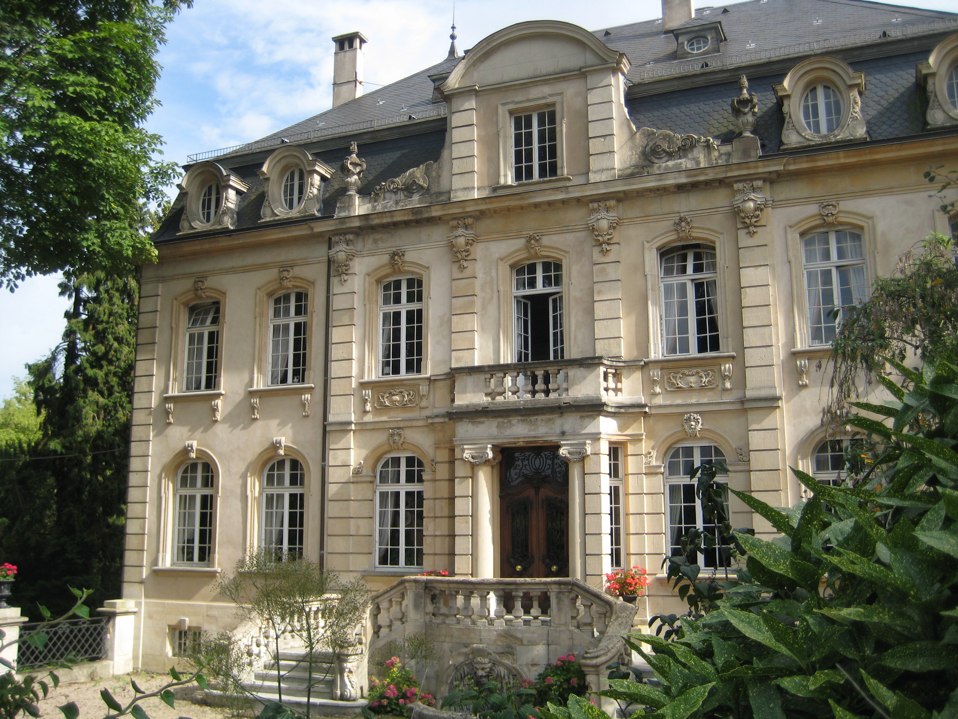 Description chateau Chatel St Germain Date7 September 2011Sourcemon appareil photoAuthorAimelaimePermission (Reusing this file) chateau Chatel St Germain